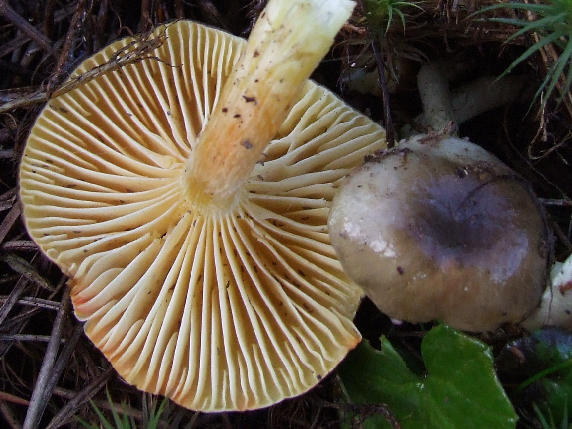 Hygrophorus hypothejus